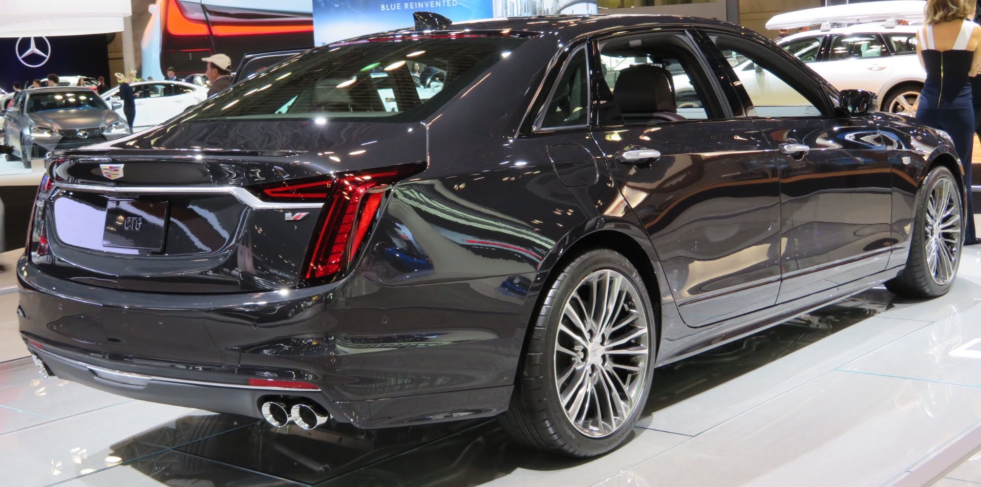 In New York International Auto Show, at Manhattan, New York